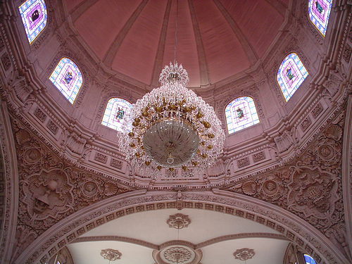 inside the dome